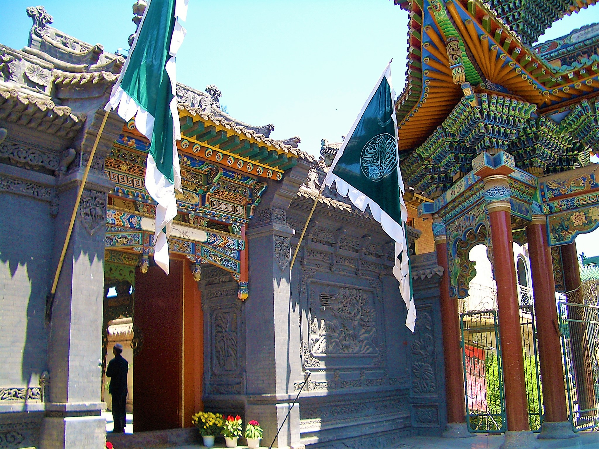 Yu Baba Gongbei on the north side of Linxia City